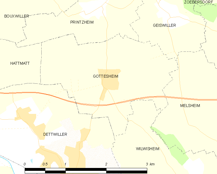 Map of French municipality